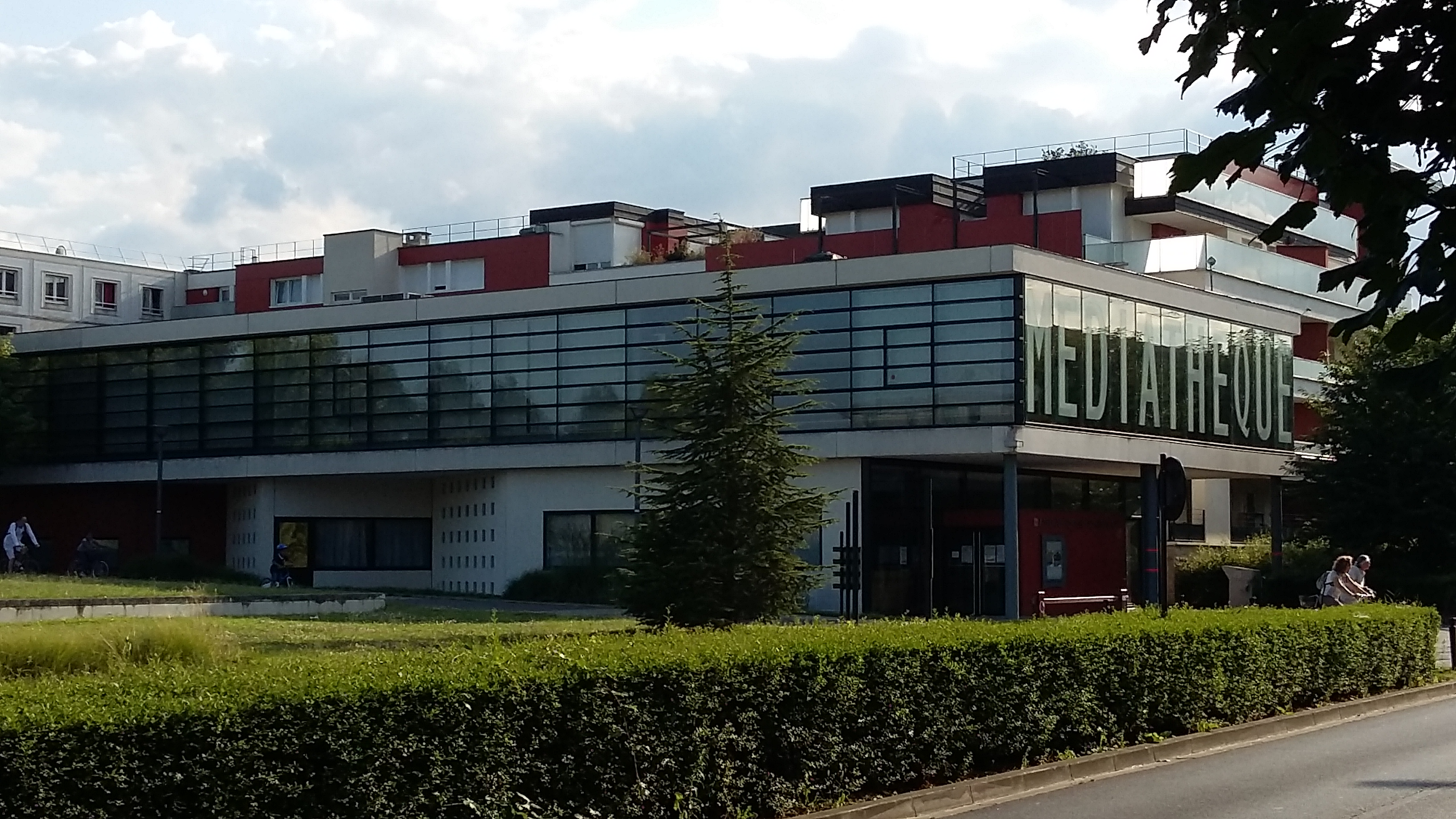 Lognes' Library (France)